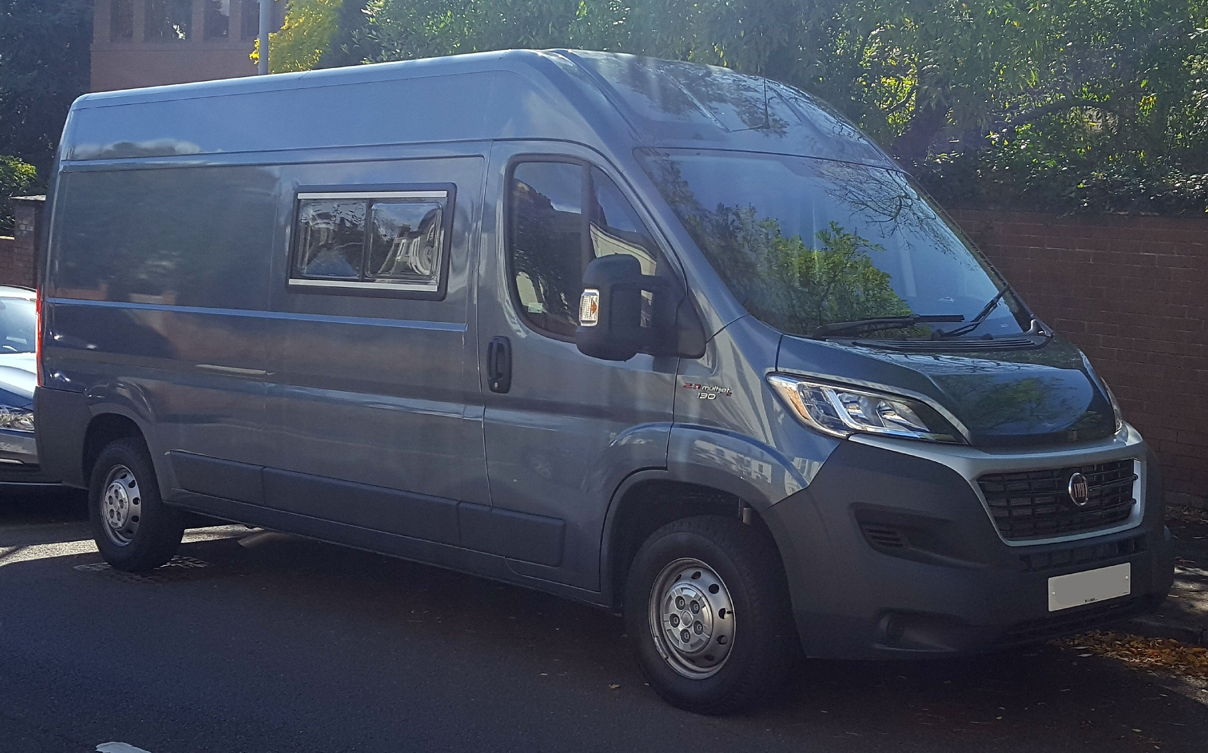 2017 Fiat Ducato 35 Multijet 2.3 Front Taken in Leamington Spa